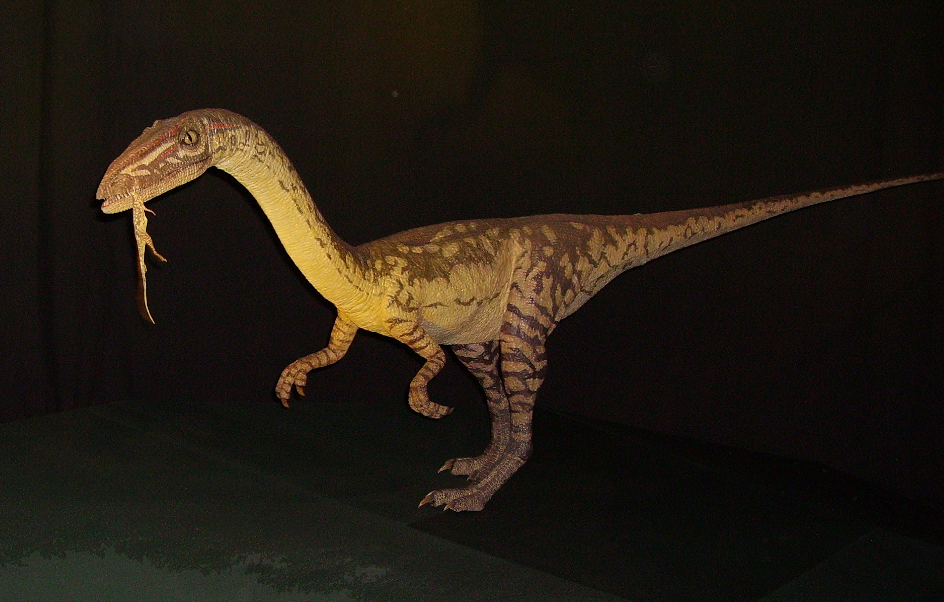 Coelophysis animatronics model, Natural History Museum, London.